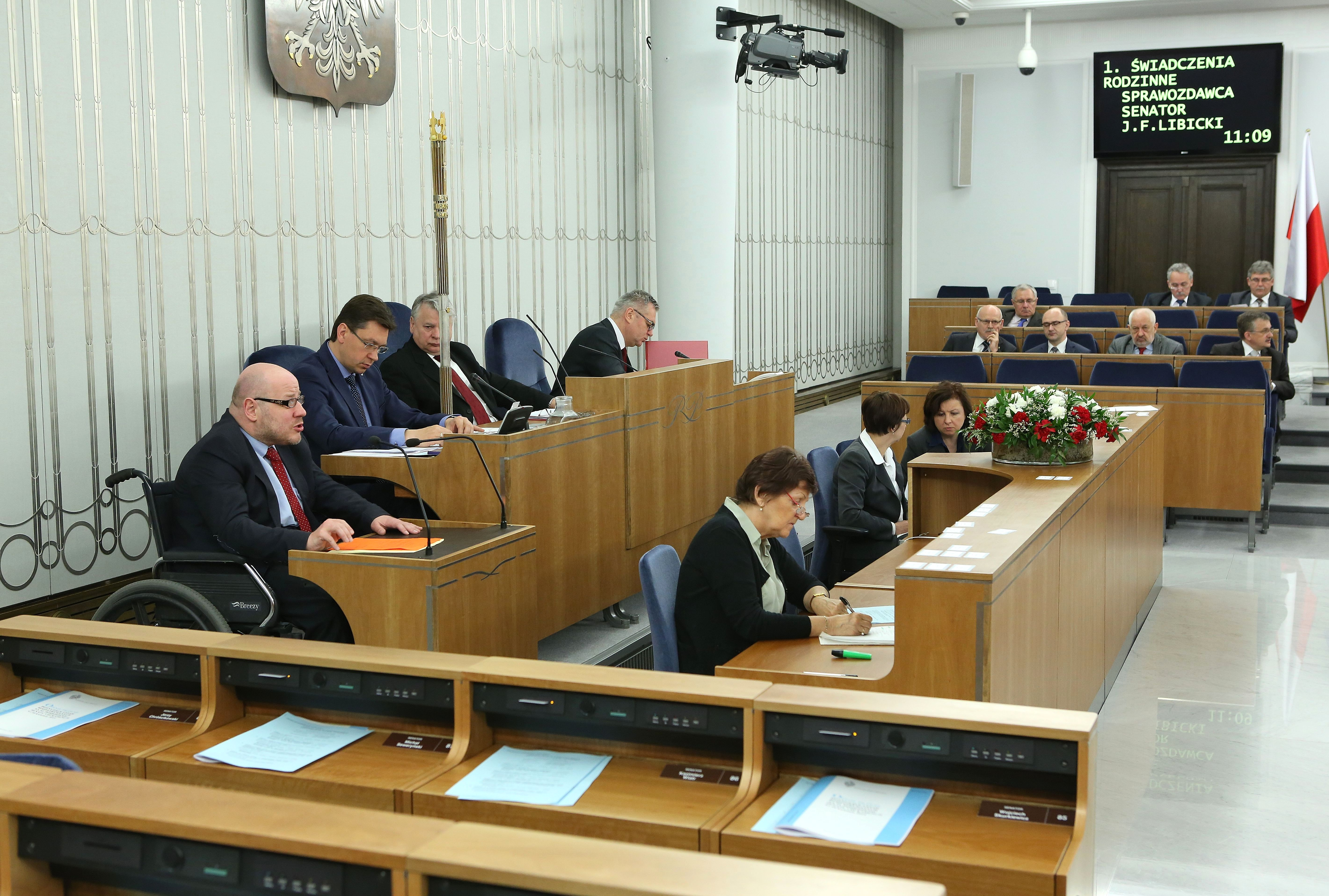 Senator Jan Filip Libicki. 52nd sitting of the 8th term Polish Senate